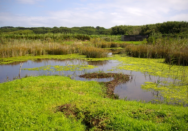 Lower Moor Wetland, St. Mary's Looking from one hide across the pools to another. We saw nothing as it was mid-day, but Grey Heron, Moorhen, Mallard and Greenshanks are to be seen.